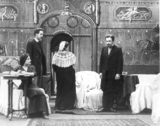 "Idiot" (1910). Film screenshot.